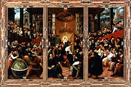 St. Catherine discussing at the University of Alexandria. Detail of the altar of Ingolstadt Cathedral